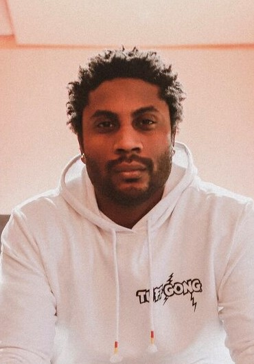 Jamaican-Canadian recording artist Jonathan Emile during a recording session at Planet Studios in Montreal, Quebec, Canada.